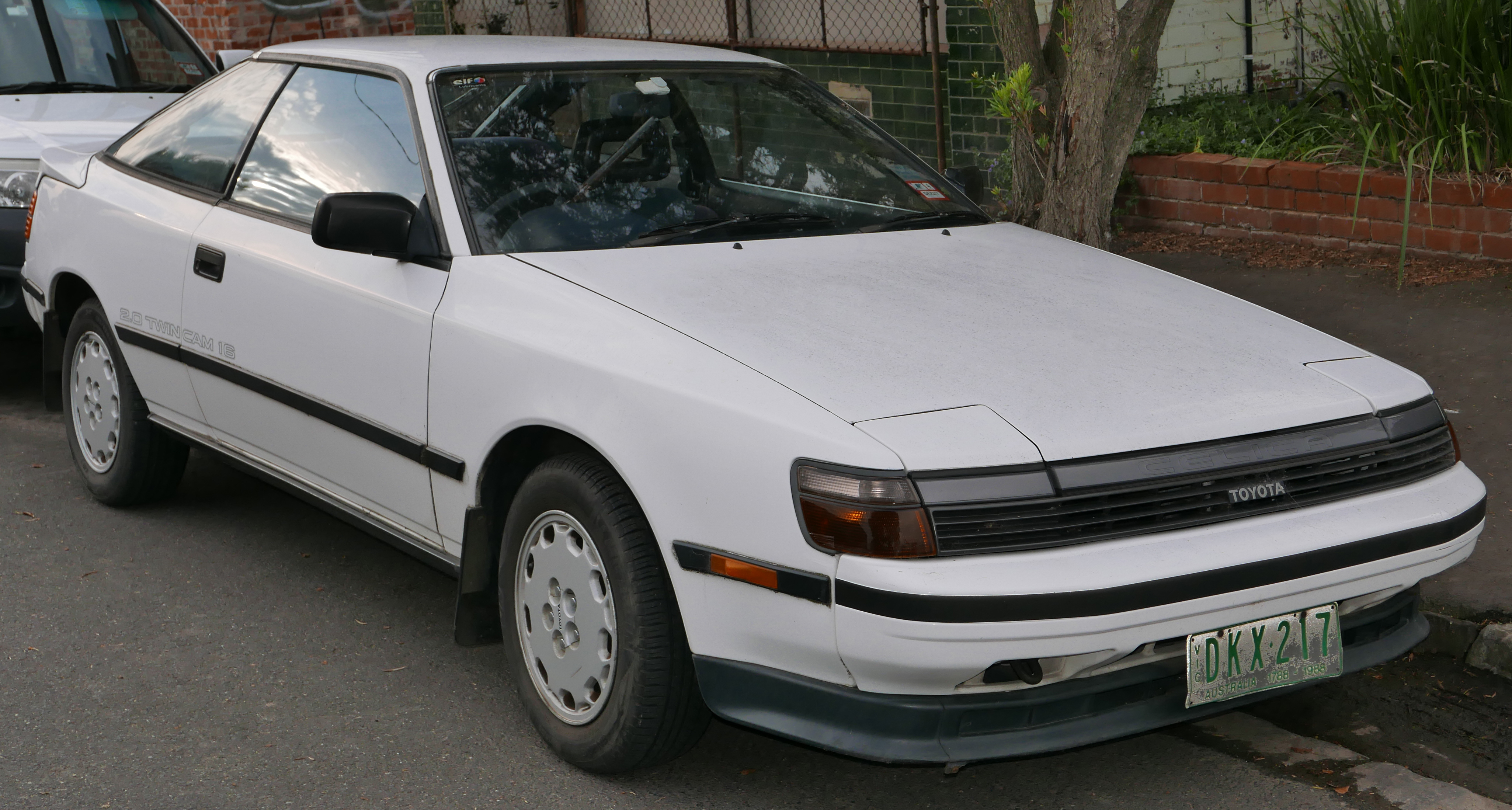 1988 Toyota Celica (ST162) SX liftback. Photographed in Brunswick, Victoria, Australia. Vehicle registration enquiry results Jurisdiction Victoria Registration DKX217 Chassis code Not available Engine code 3S0610212 Compliance date Not available Year of manufacture 1988